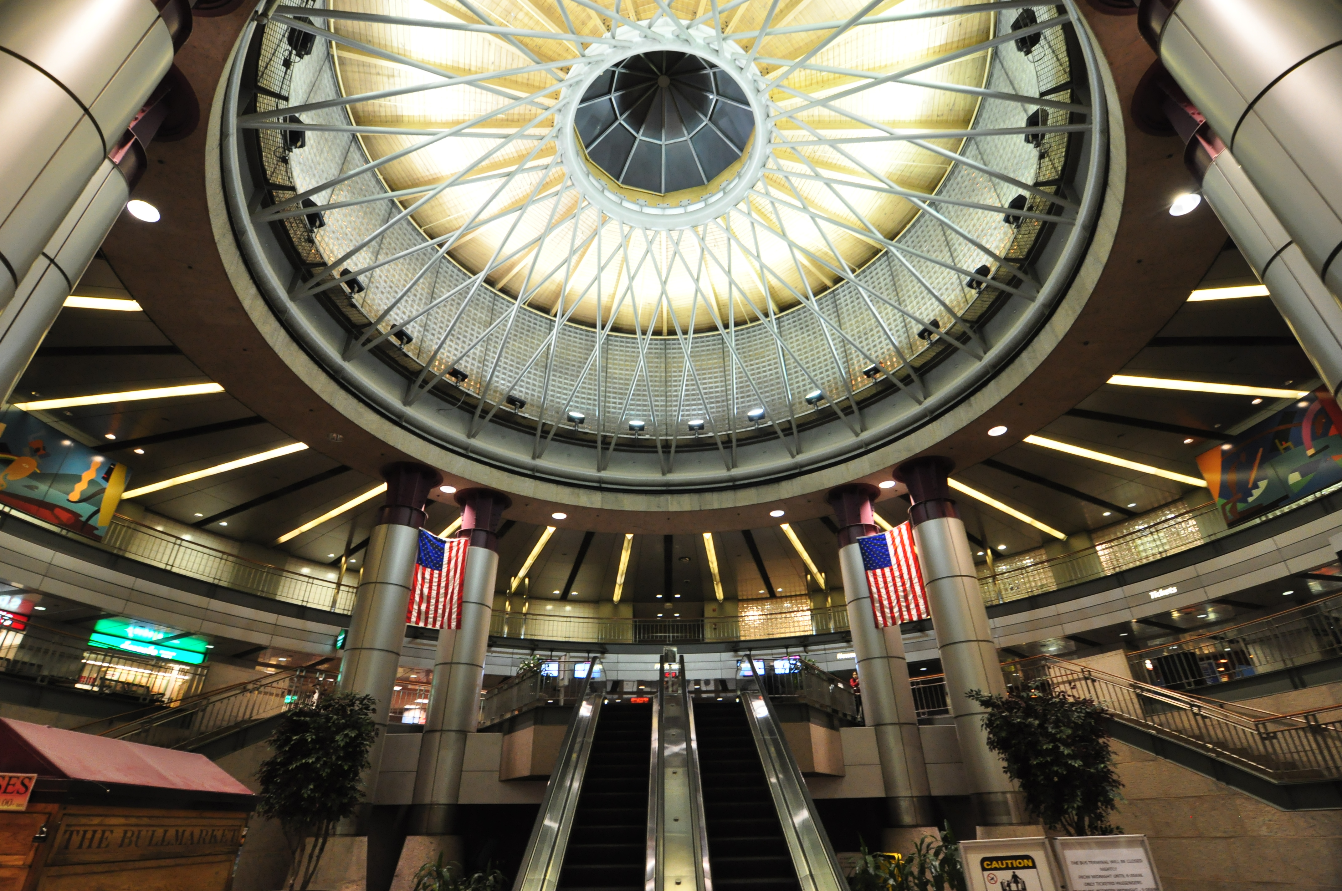 Boston's South Station Bus Terminal in 2010